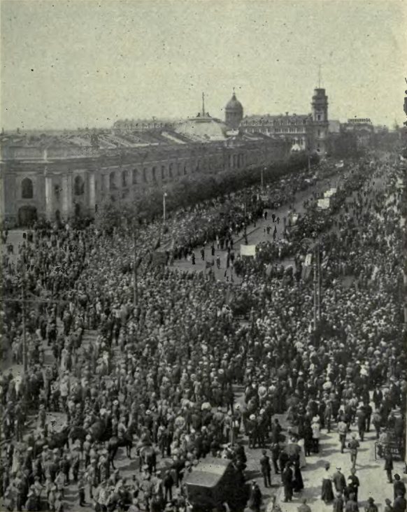 Typical crowd on the Nevski Prospect during the Bolshevik or Maximalist risings, july 1917.